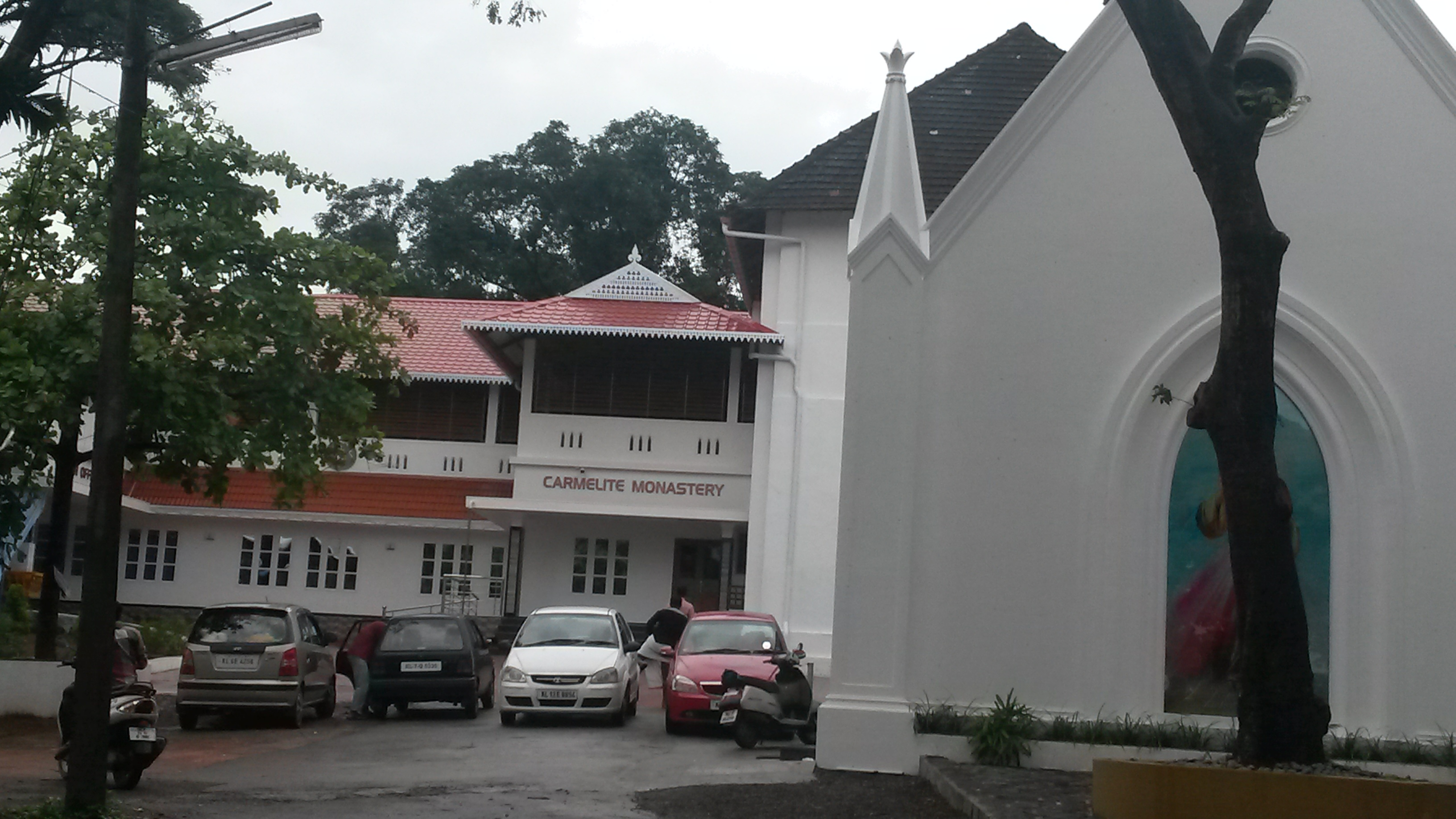 Carmelite Monastery, Manjummel Church